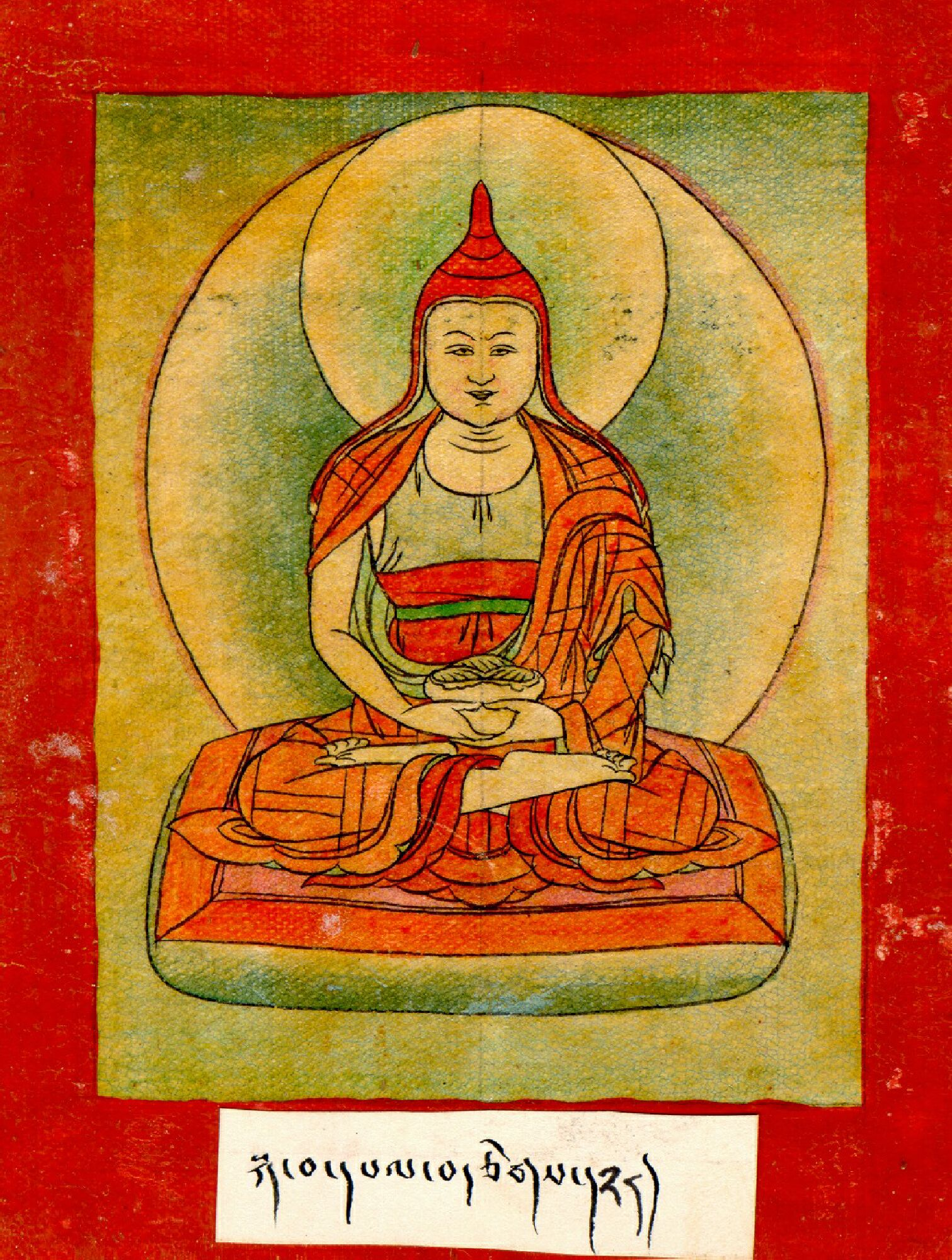 Kawa Paltsek, 8th Century, Disiple of Padmasambhaba